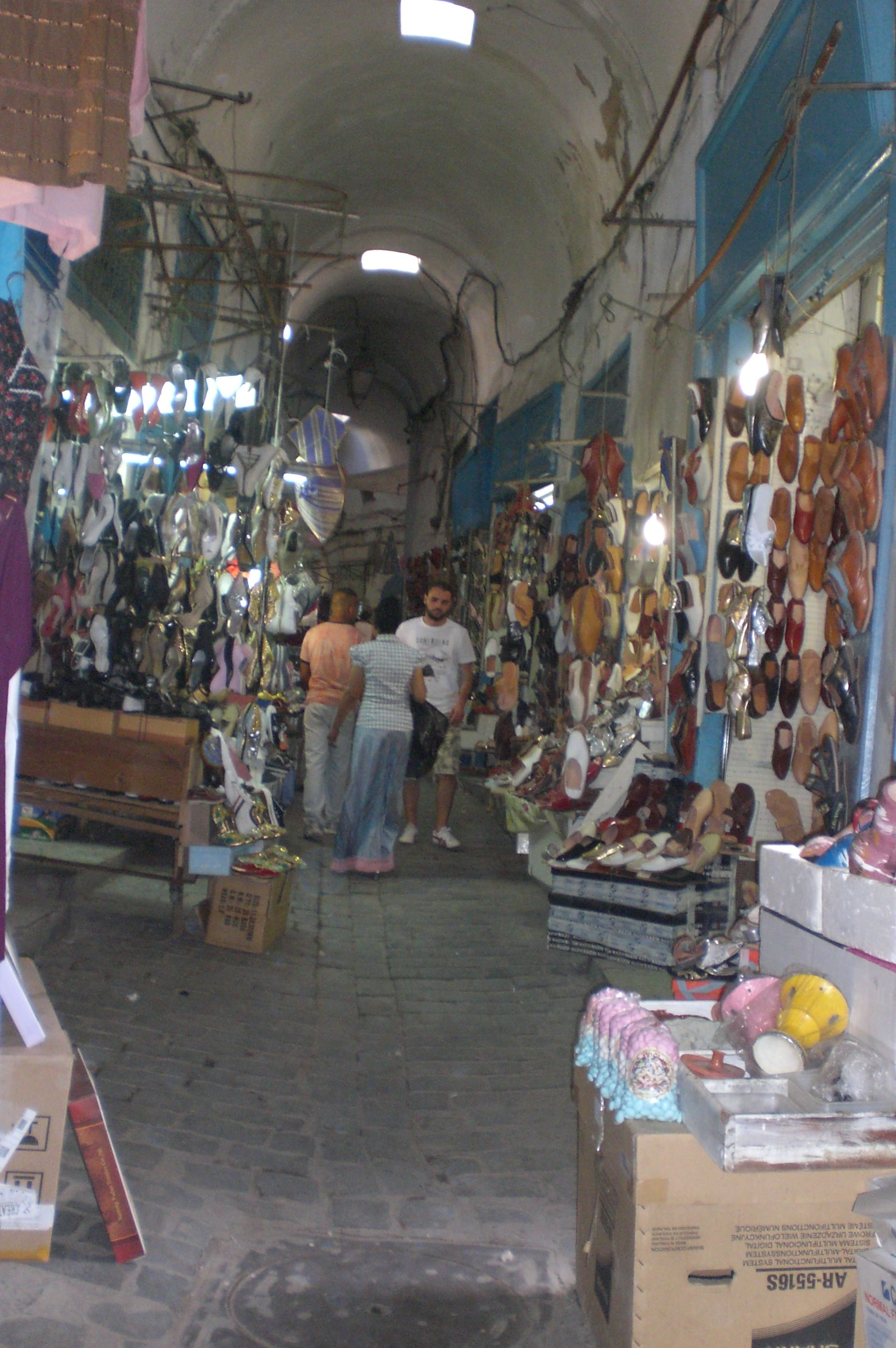 Suq of Belaghjiya (traditional shoes)-Tunis